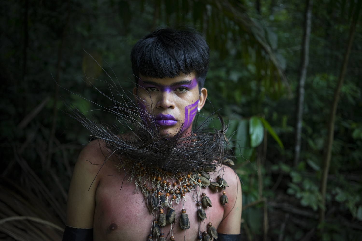 “We wanted to create a connecting-platform for people who are discriminated because they do not t into any gender-pattern and are denounced because of their skin color and origin.” Tupiniqueen is a play on words referring to “Tupiniquim”, which is a tribe of the Tupi people. e Tupi people were the most numerous inhabitants of Brazil before colonization. “We underline our indigenous roots, whereas most Brazilians deny their black or indigenous backgrounds. e word queen is self explanatory; we are proud, we are strong and we are in uential.” - Mendes AúaLocation: Brazil, ManausEvent type: Tupiniqueen jungle performanceDate or year: 2018